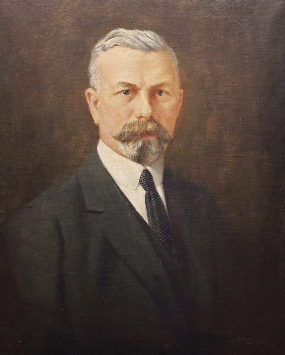 Painting of Charles Boot which hangs in Banner Cross Hall Sheffield, Henry Boot PLC Head Office